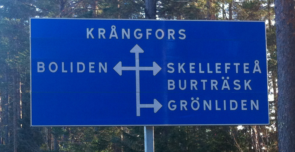 Road sign at The Five Roads Crossing in the inlands of Skellefteå kommun, Västerbotten Sweden. The 5th road is slighty moved nowadays, for safety reasons.